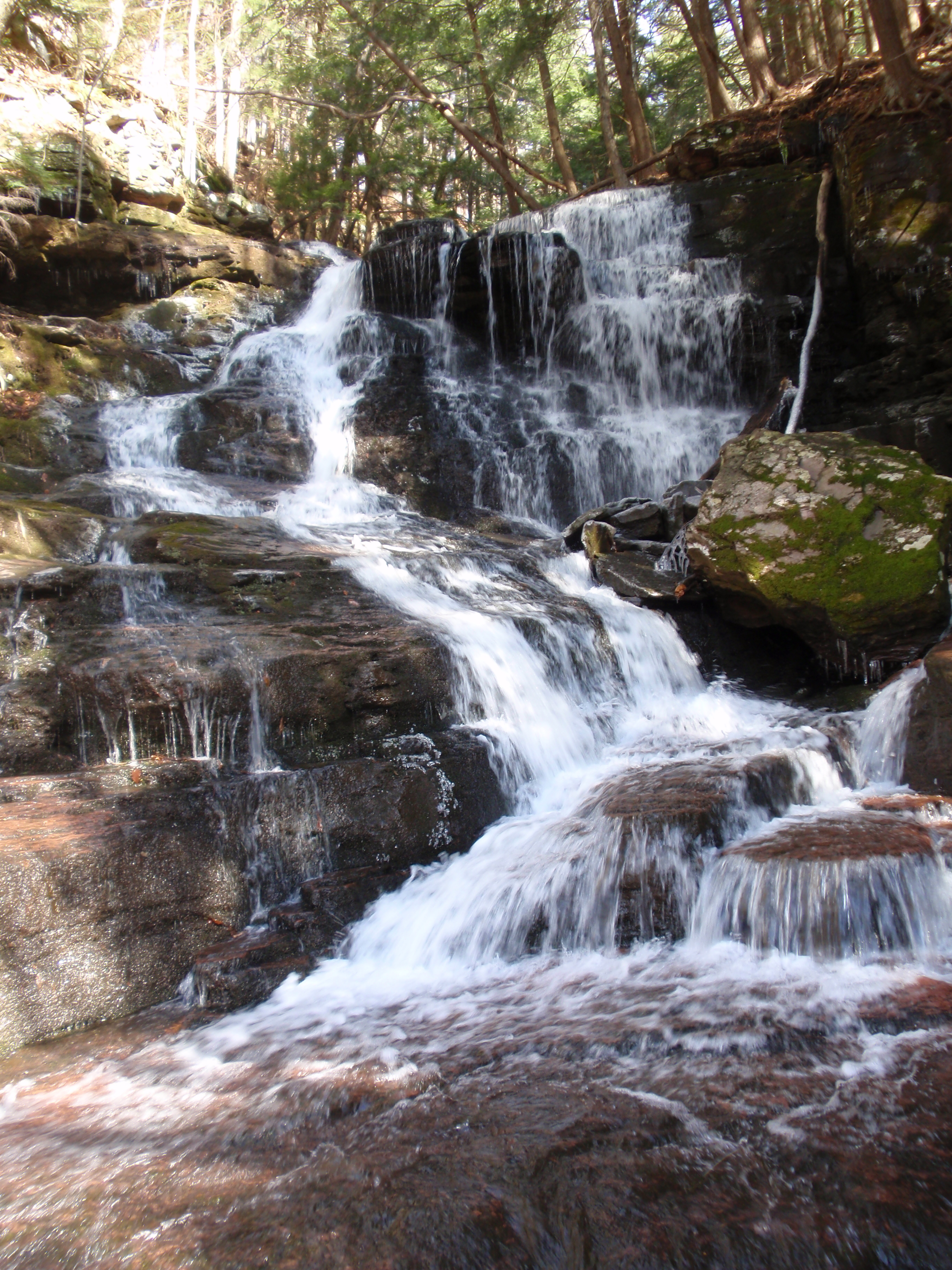 Waterfall located on Cliff Trail